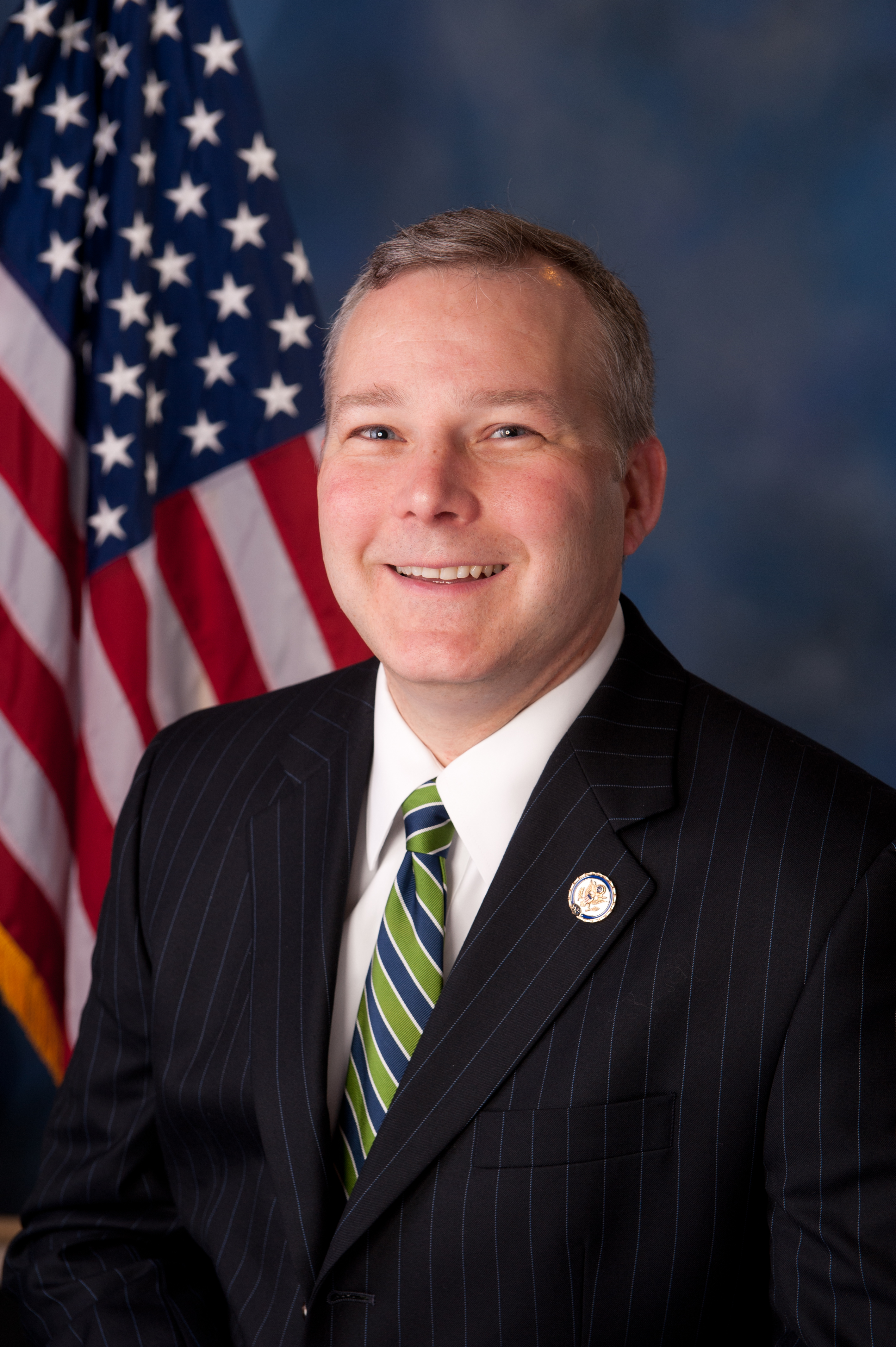 Rep Tim Griffin